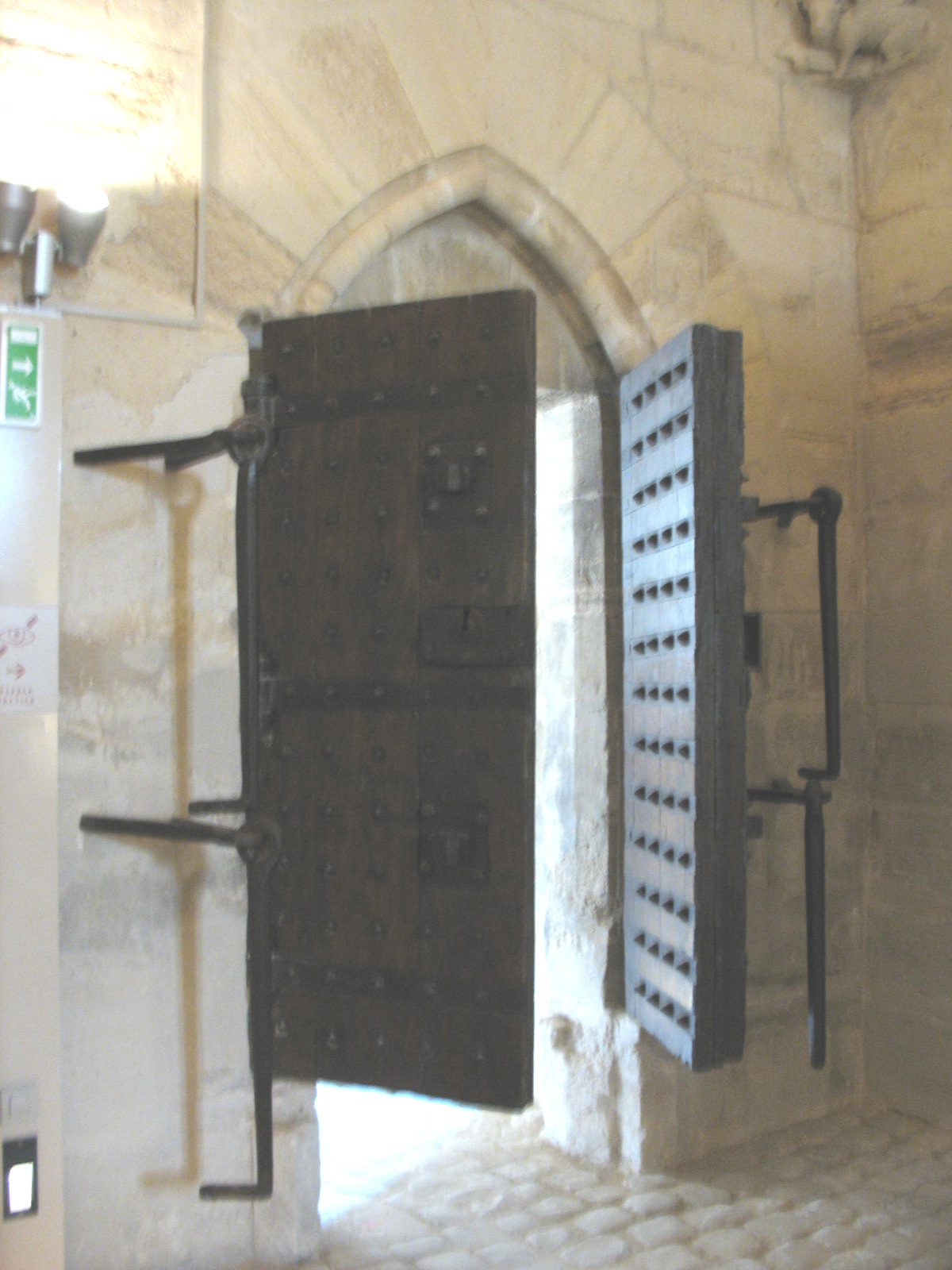 Doors of the former Temple of Paris at the Chateau de Vincennes